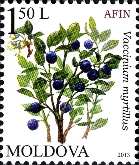 Stamps of Moldova, 2013